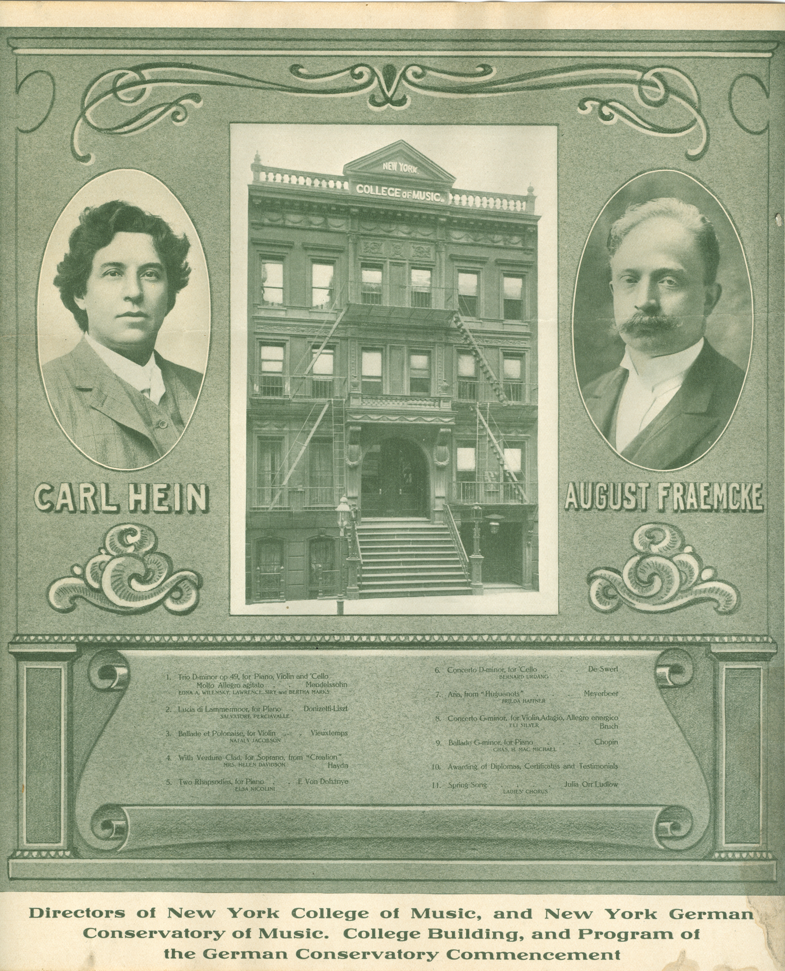 Carl Hein and August Fraemke along with a picture of the NY College of Music building